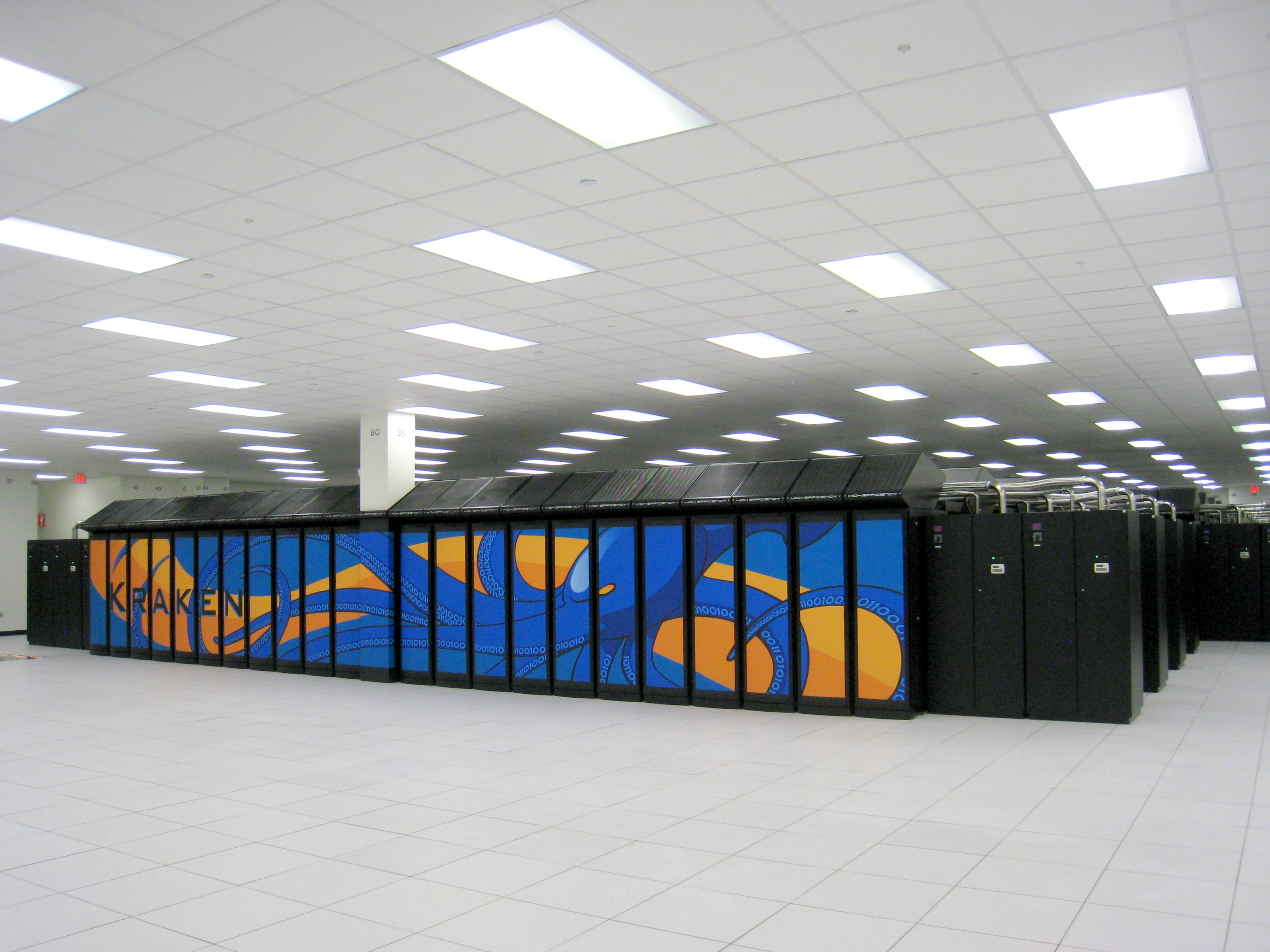 Kraken, a Cray XT5 supercomputer funded by the National Science Foundation and housed in the Oak Ridge National Laboratory, Oak Ridge, Tennessee, USA. This machine was in an unclassified area, and there were no prohibitions against photography when I visited the machine room.